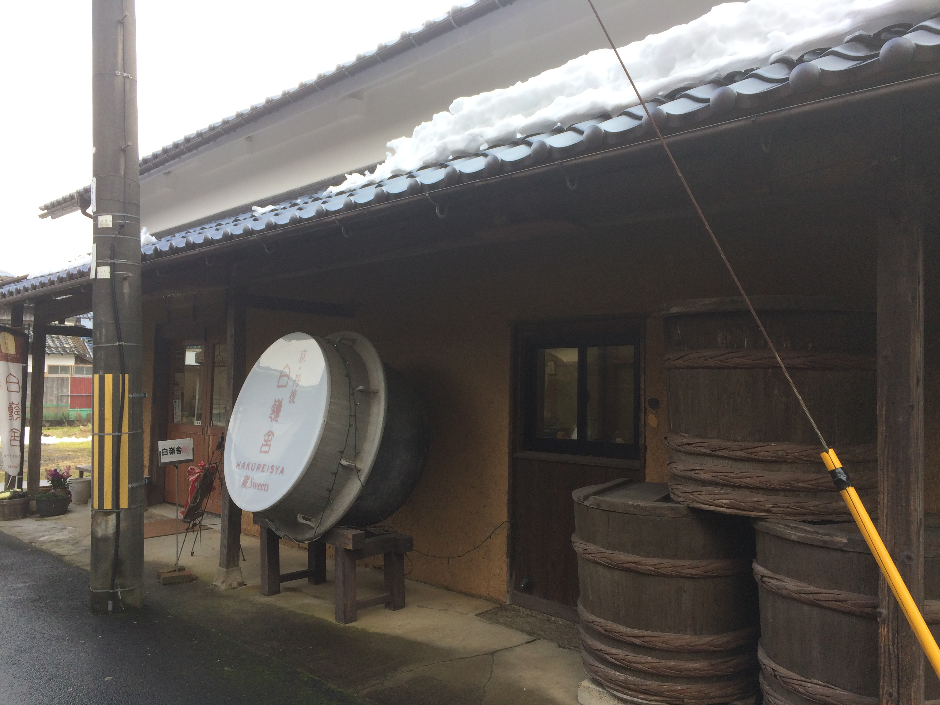 hakurei sake brewery in Yura,miyazu city,kyoto pref